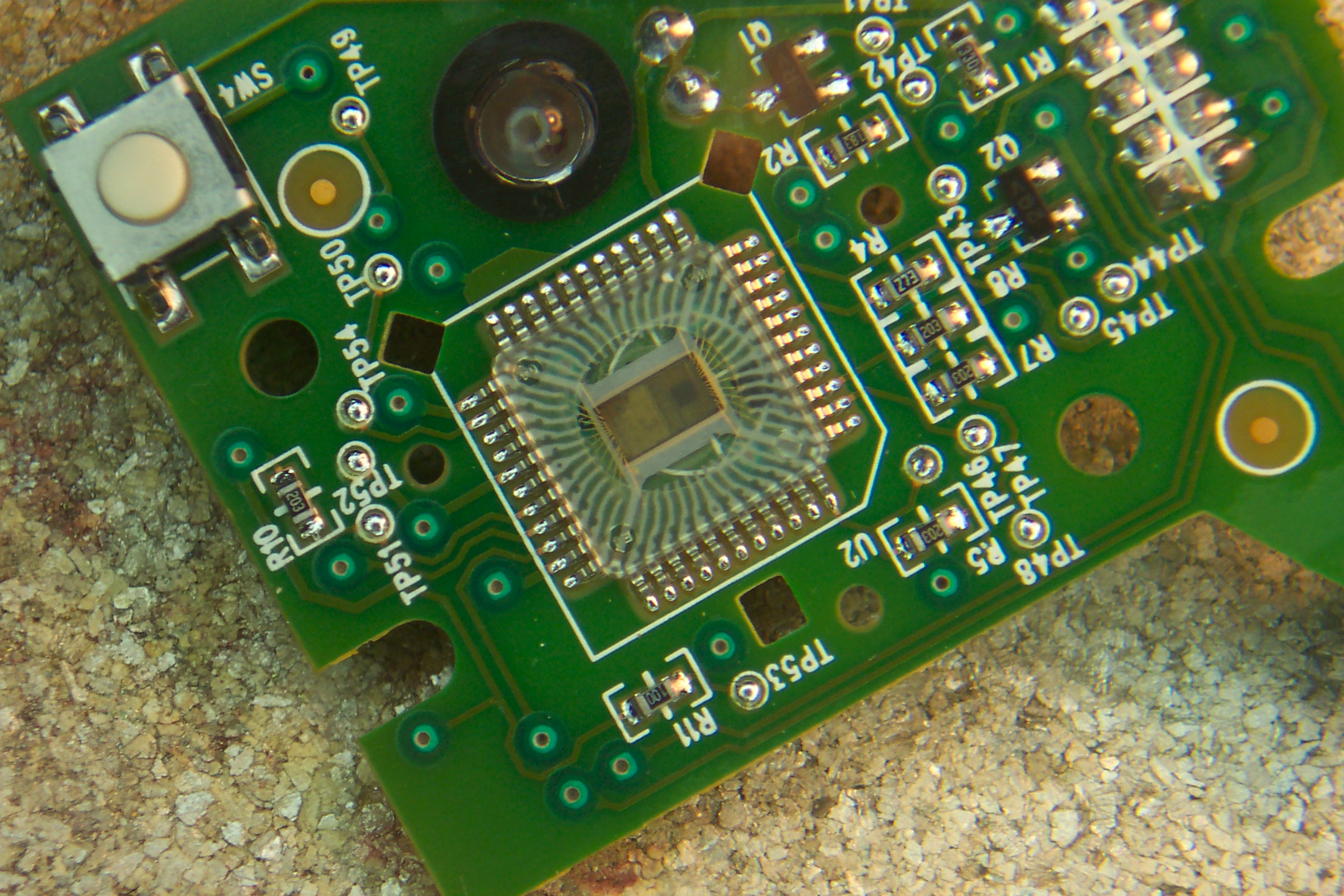 The optical sensor from a Microsoft Wireless IntelliMouse Explorer 1.0A. Taken by SweBrainz 10:25, 23 December 2005 (UTC) on December 17, 2005